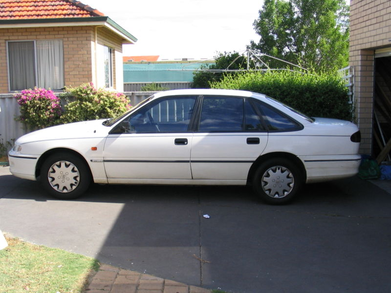 1994 Holden VR Commodore Executive sedan, photographed in Western Australia, Australia.